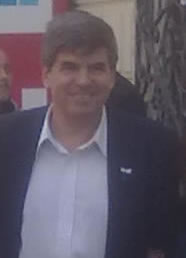 Francisco Tamarit, Rector of National University of Córdoba, Argentina.